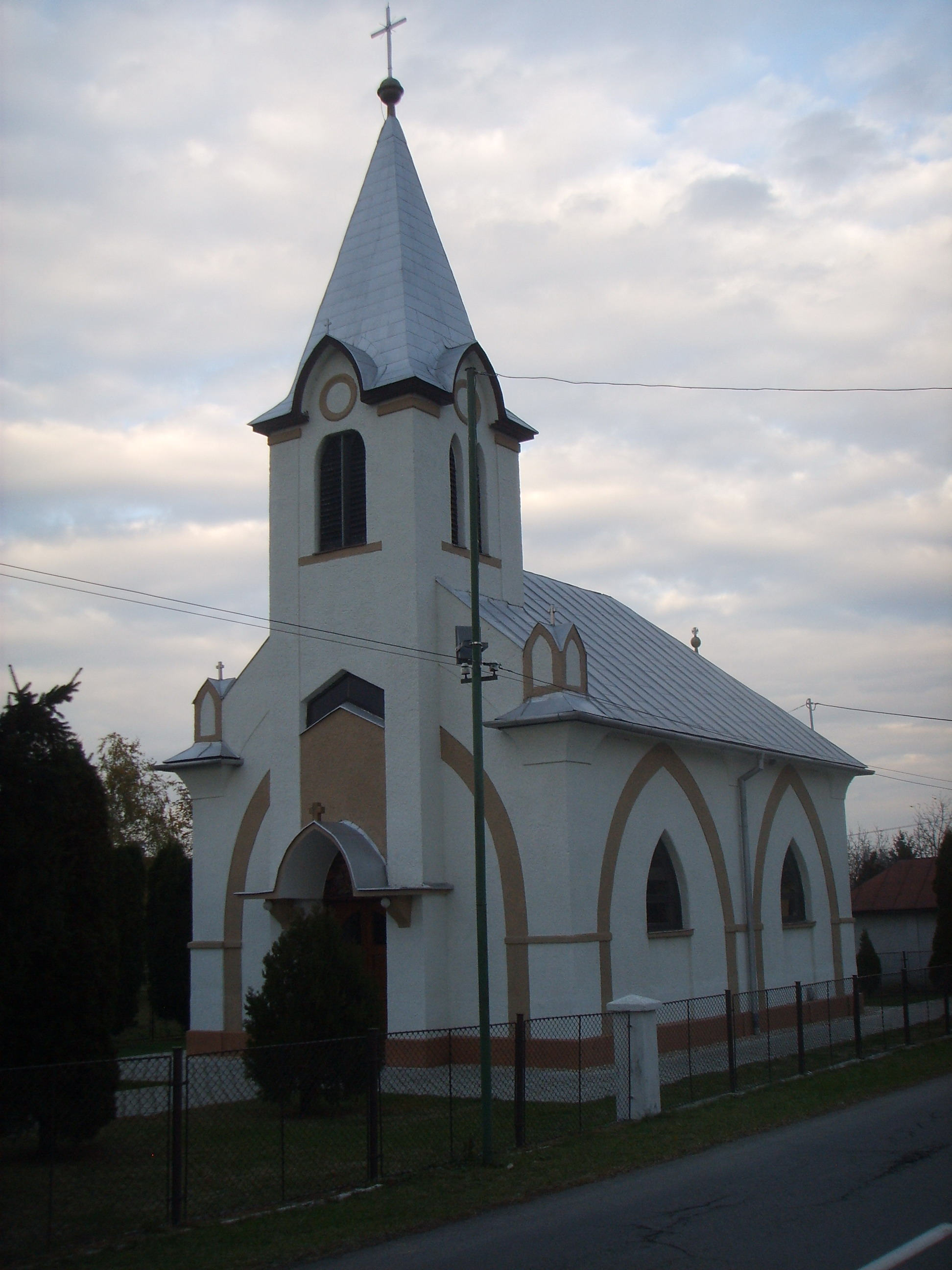 Roman catholic church in Višňov, district Trebišov, Slovakia